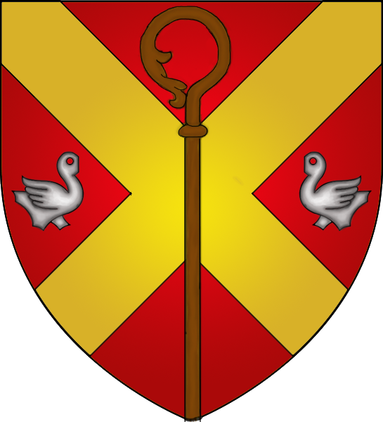 Coat of arms of the municipality of Hosingen, Luxembourg (valid until 1 January 2012)